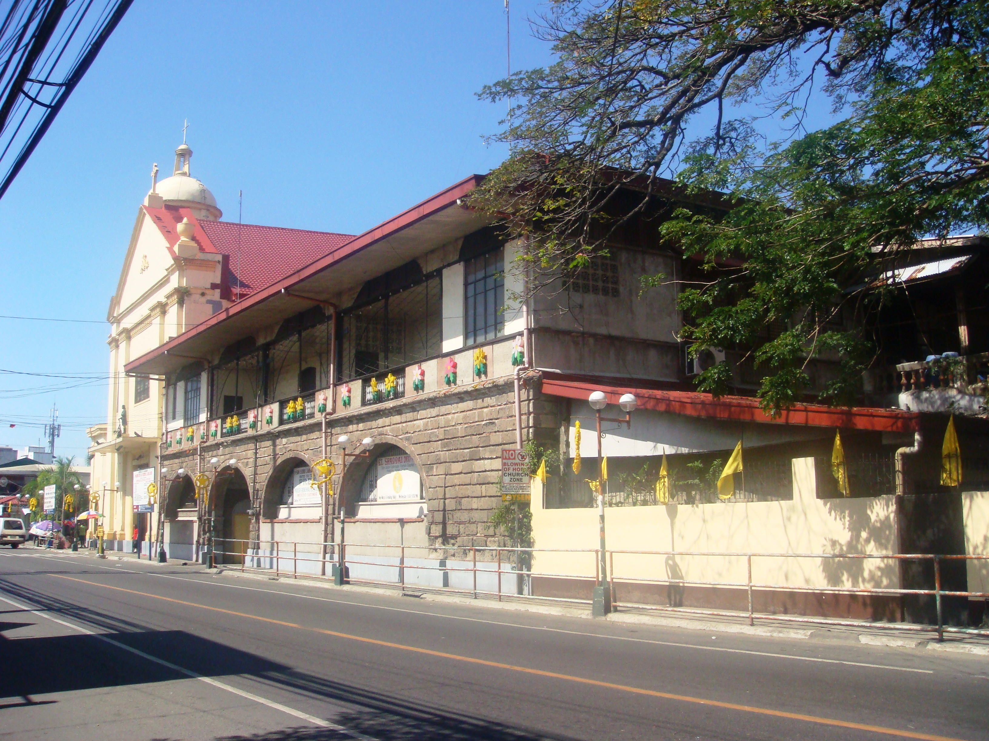 Parish Church of San Isidro Labrador